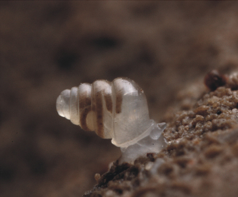 A live individual of Zospeum tholussum is seen in its natural habitat. From the paper "New Zospeum species (Gastropoda, Ellobioidea, Carychiidae) from 980 m depth in the Lukina Jama – Trojama cave system (Velebit Mts., Croatia)"